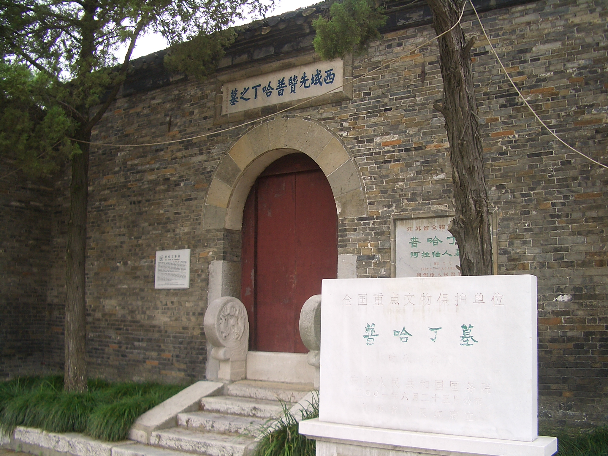 The Tomb of Puhaddin, at the Yangzhou Mosque.